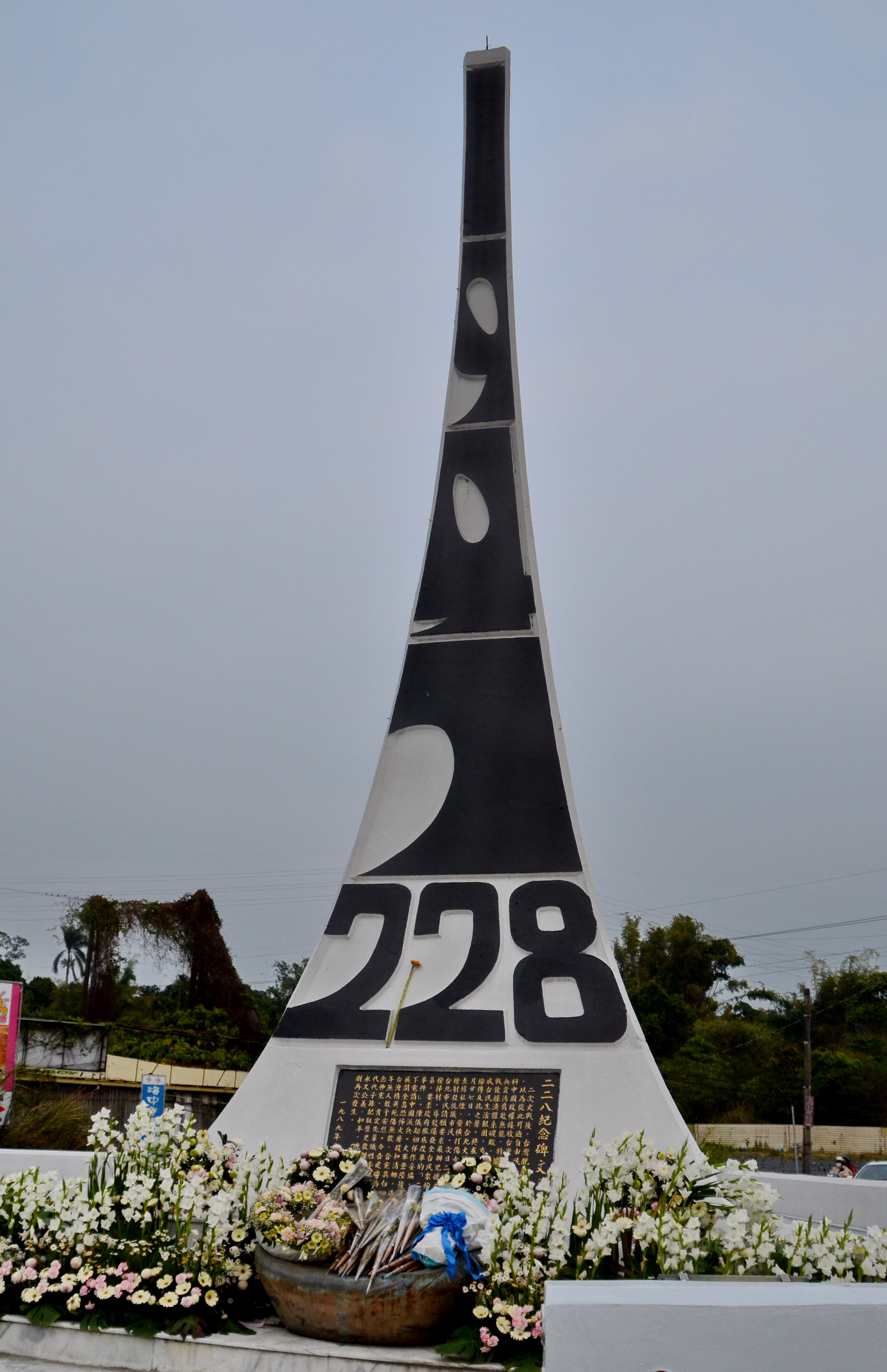 228 Monument, Chiayi City, Taiwan